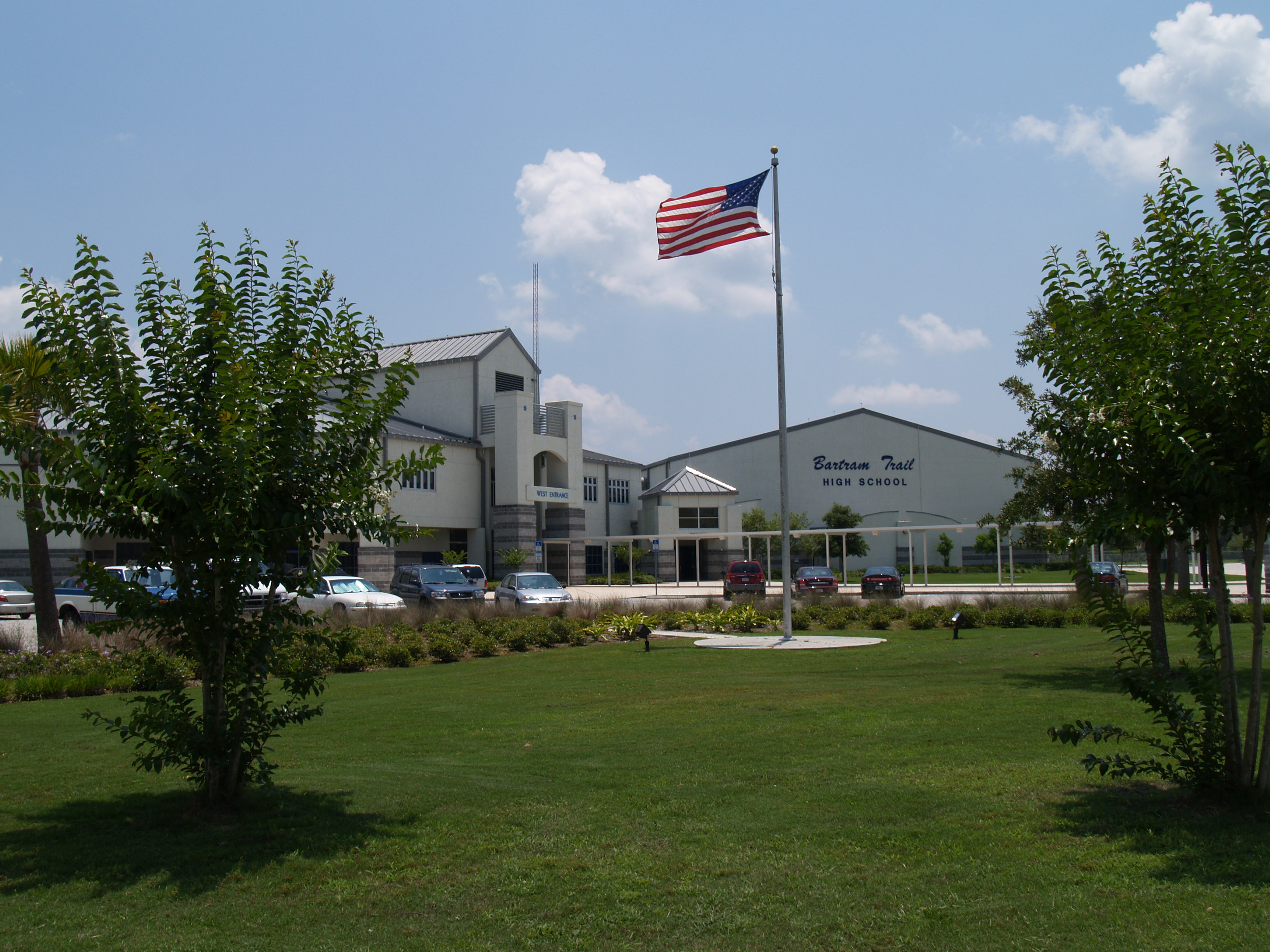 Image of Bartram Trail High School in Jacksonville, Florida, United States. E-mail: Hi Moe, You are welcome to use the image that you found at in your Wikipedia article. I attached a higher resolution version of the photo to this email which you may also use. The photo was taken / made by me as a part of my official duties and is therefore a work of the St. Johns County School District. Since we are a government organization, I believe the photo is in the public domain. Because our school district use a website content management system that allows many of the employees to post their own photos and graphics on the Bartram Trail website, I can only speak for the copyright policy of that individual image. If there are other photos or graphics on the Bartram Trail website that you would like to use, let me know and I should be able to identify the individual that posted it. Have a good day! Michael Clark Webmaster St. Johns County School District